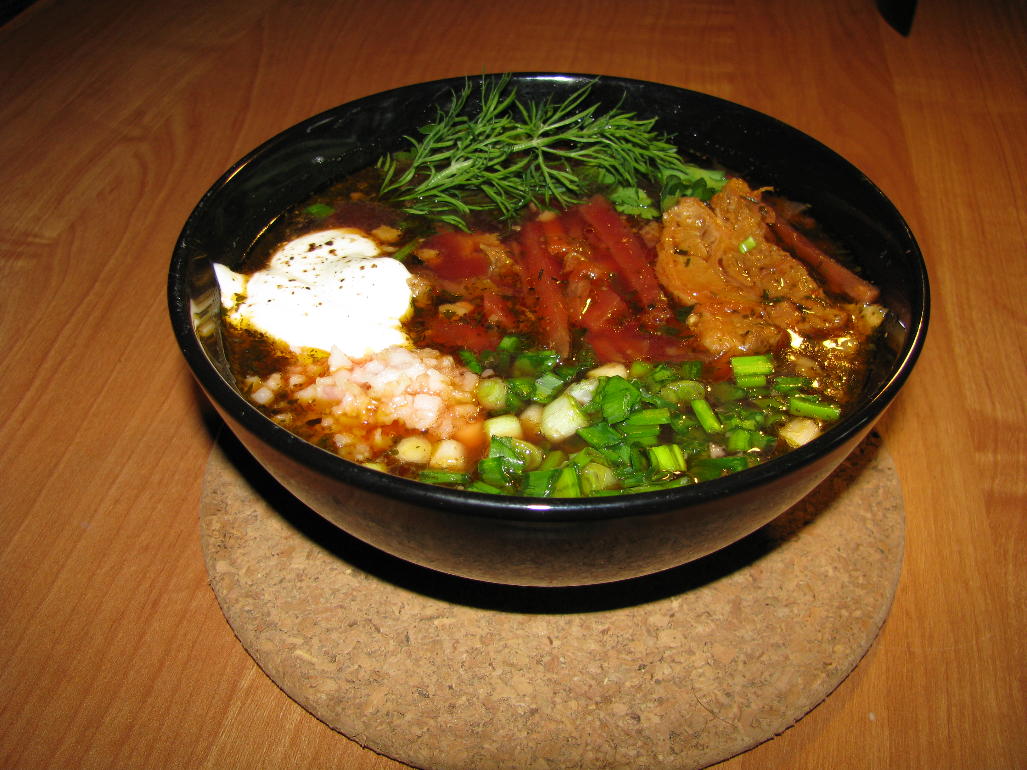 Borscht